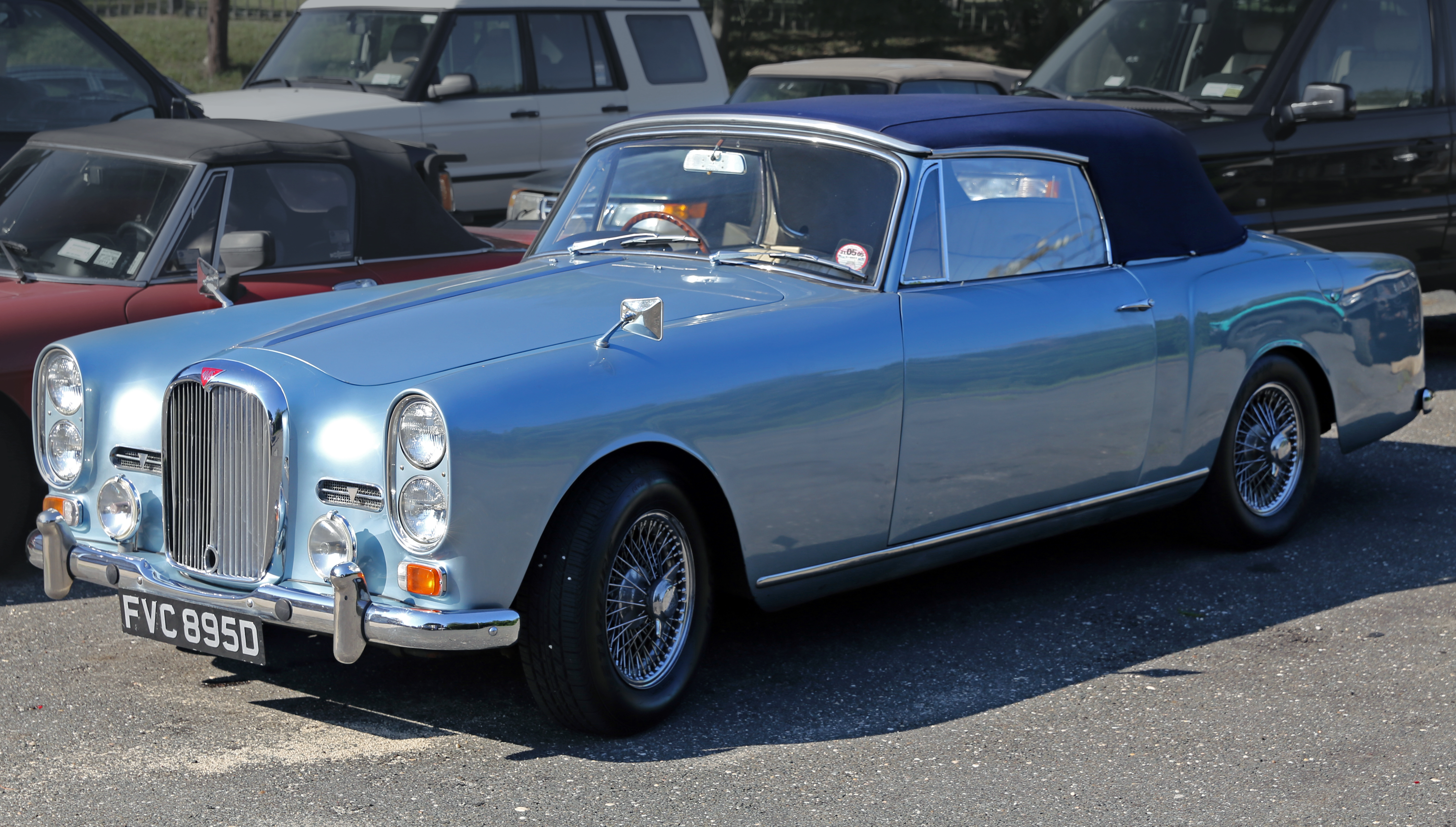 A 1966 Alvis TF21 drophead coupé, originally licensed in Preston but currently domiciled in Florida. Off UK roads since June 2005. Chassis 27372, this is the first TF21 built and was the original factory demonstrator. Original registration FVC895D - the next number up (FVC896D) belongs to a fixed-roof TF21. First registered March 1 1966.